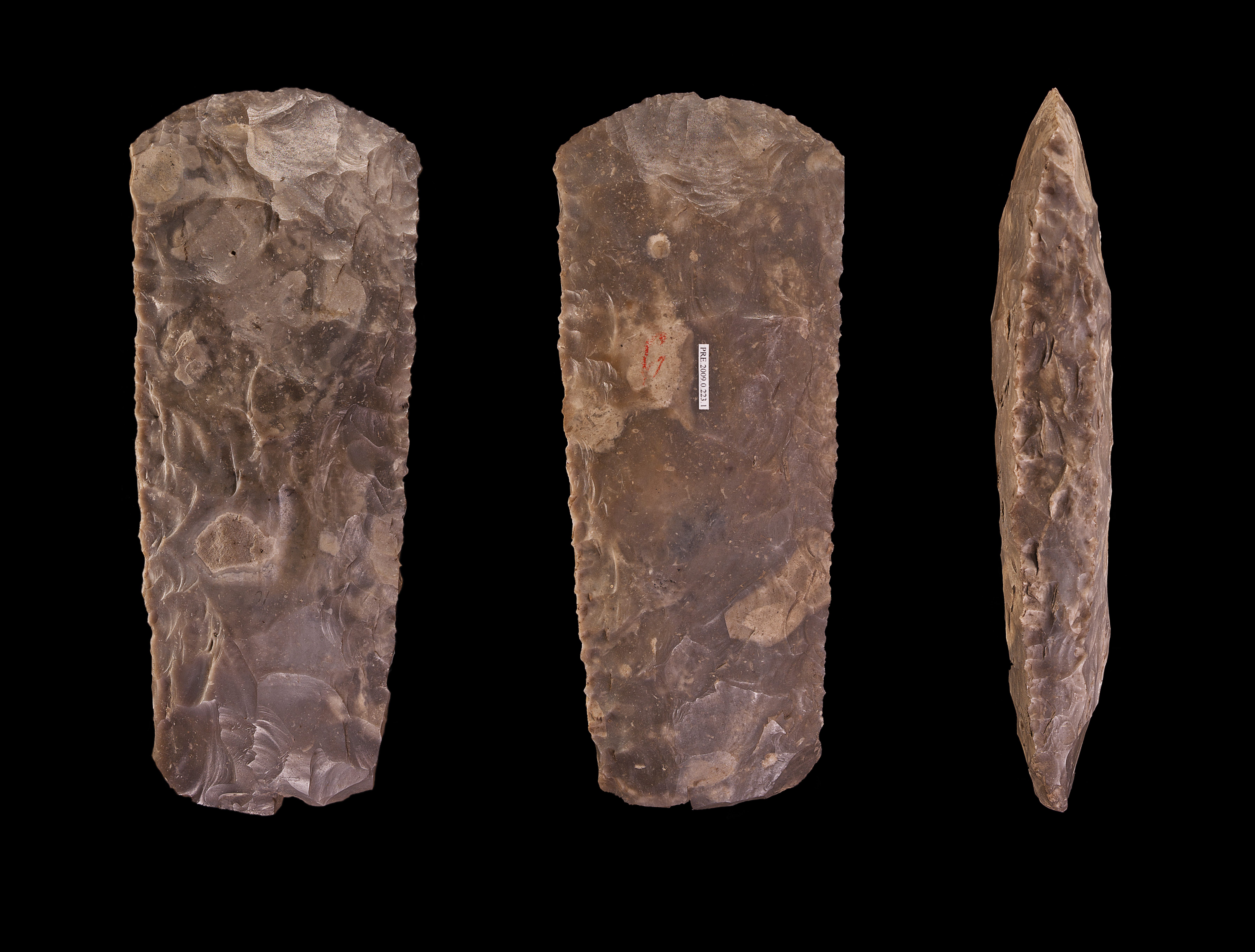 Preform for a polished ax - Different views of the same specimen.